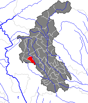 This map shows the area of the Gemeinde (municipality) Gutenberg an der Raabklamm in the Bezirk (district) Weiz, Styria, Austria.